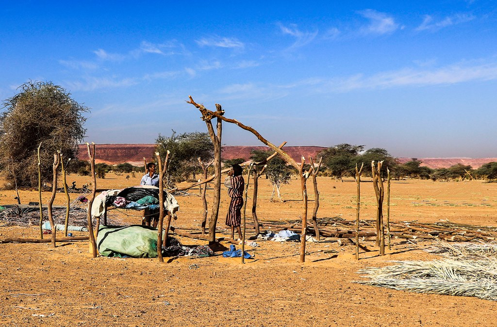 Construction of a Tikkit